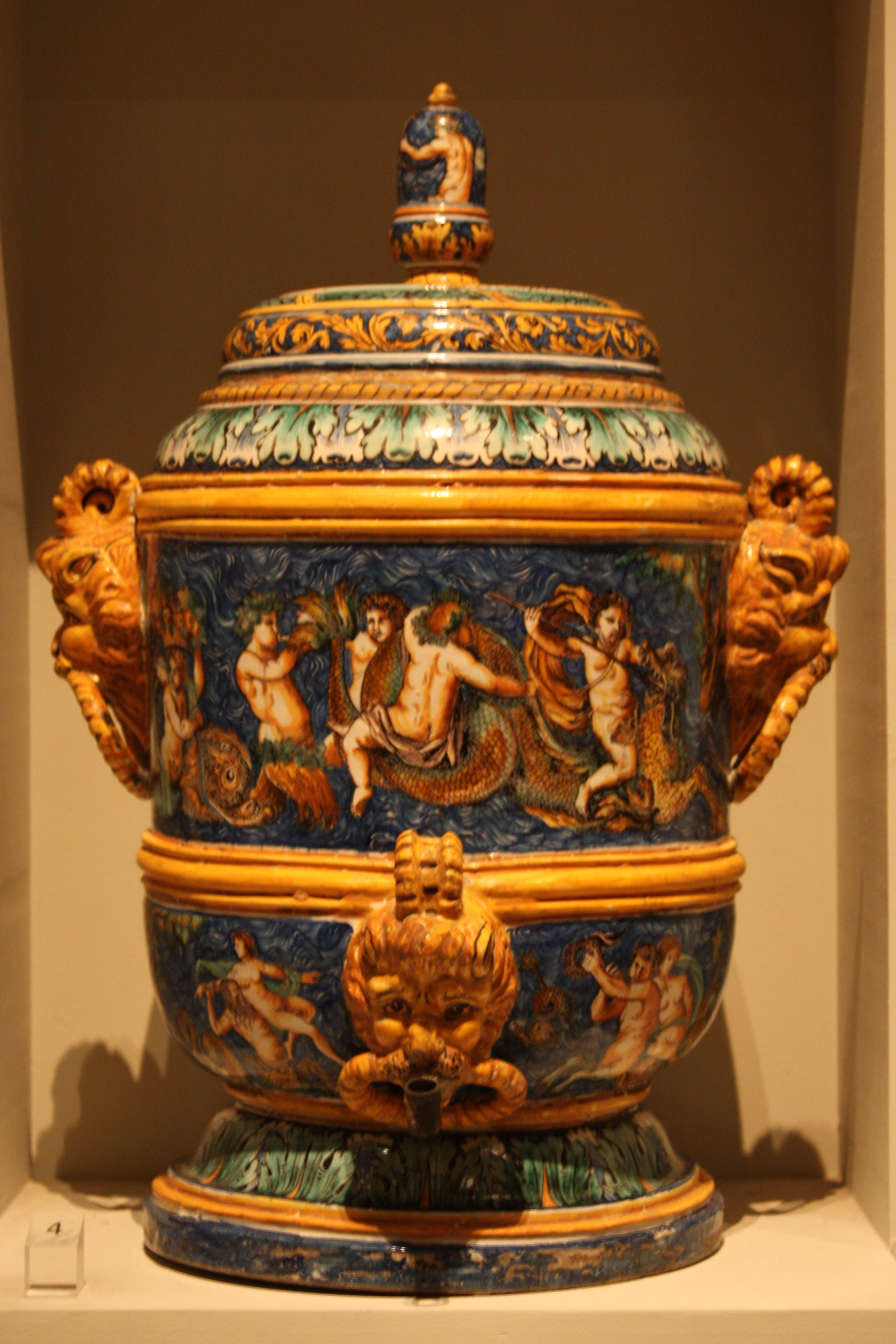 Faience cistern from the city of Nevers, c. 1600. The faience industry of Nevers was founded in 1588 by italian craftsmen. The stylistic inspiration is the italian "historiati" school. National Museum, Stockholm.